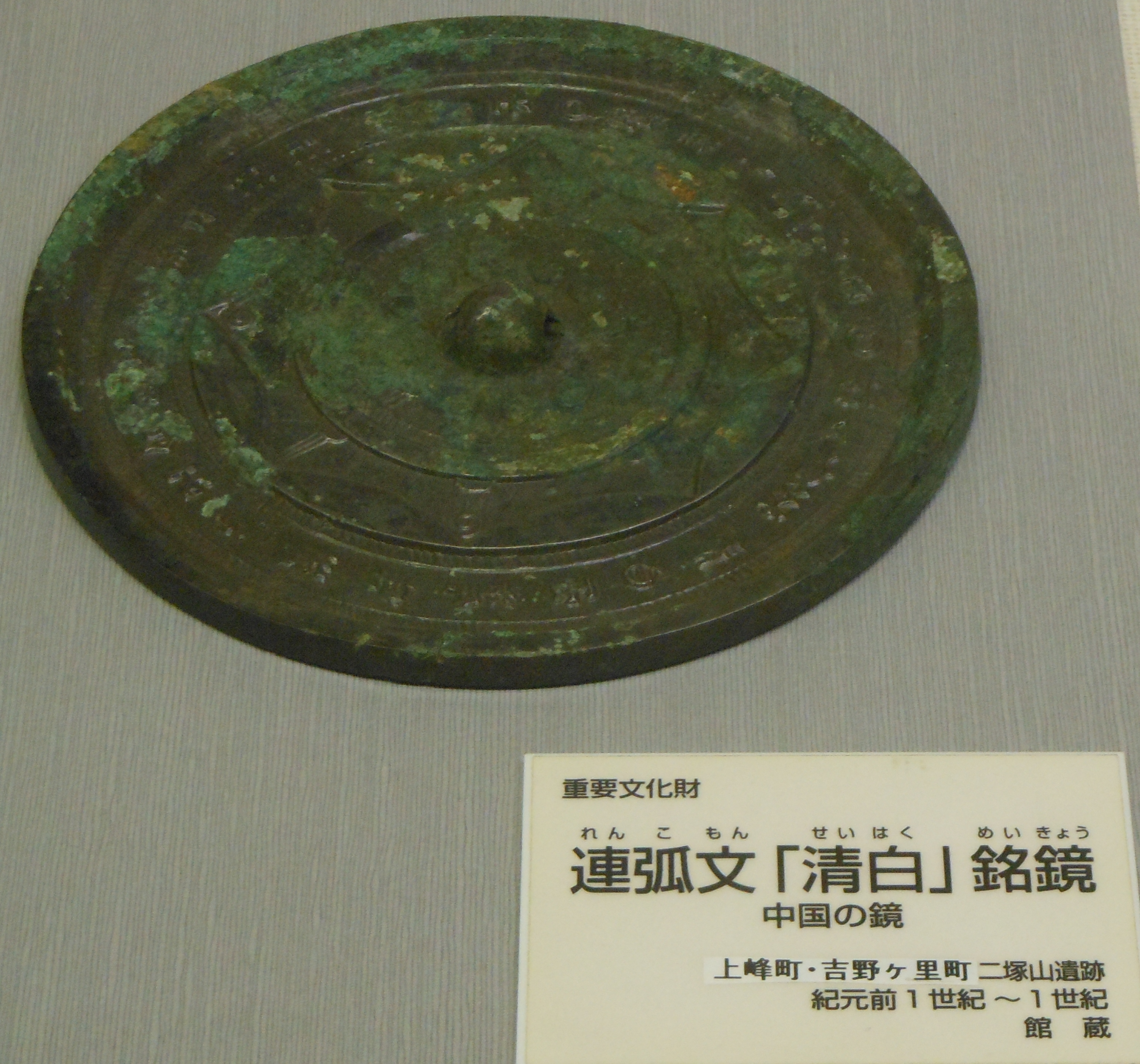 Renkomon "Seihaku" Meikyo, a bronze mirror in B.C. 1st - A.D. 1st centuries, excavated from Futazukayama site, between Kamimine town to Yoshinogari town, Saga, Japan. It displayed in Saga Prefectural Museum.